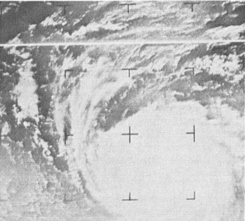 Hurricane Dora approaching Florida, taken by the Nimbus satellite on September 5, 1964